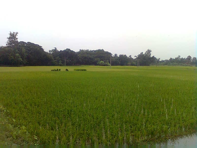 Paddy field at Gadha Bill